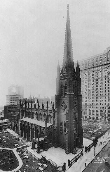 Bird's-eye view of Trinity Church, New York City.